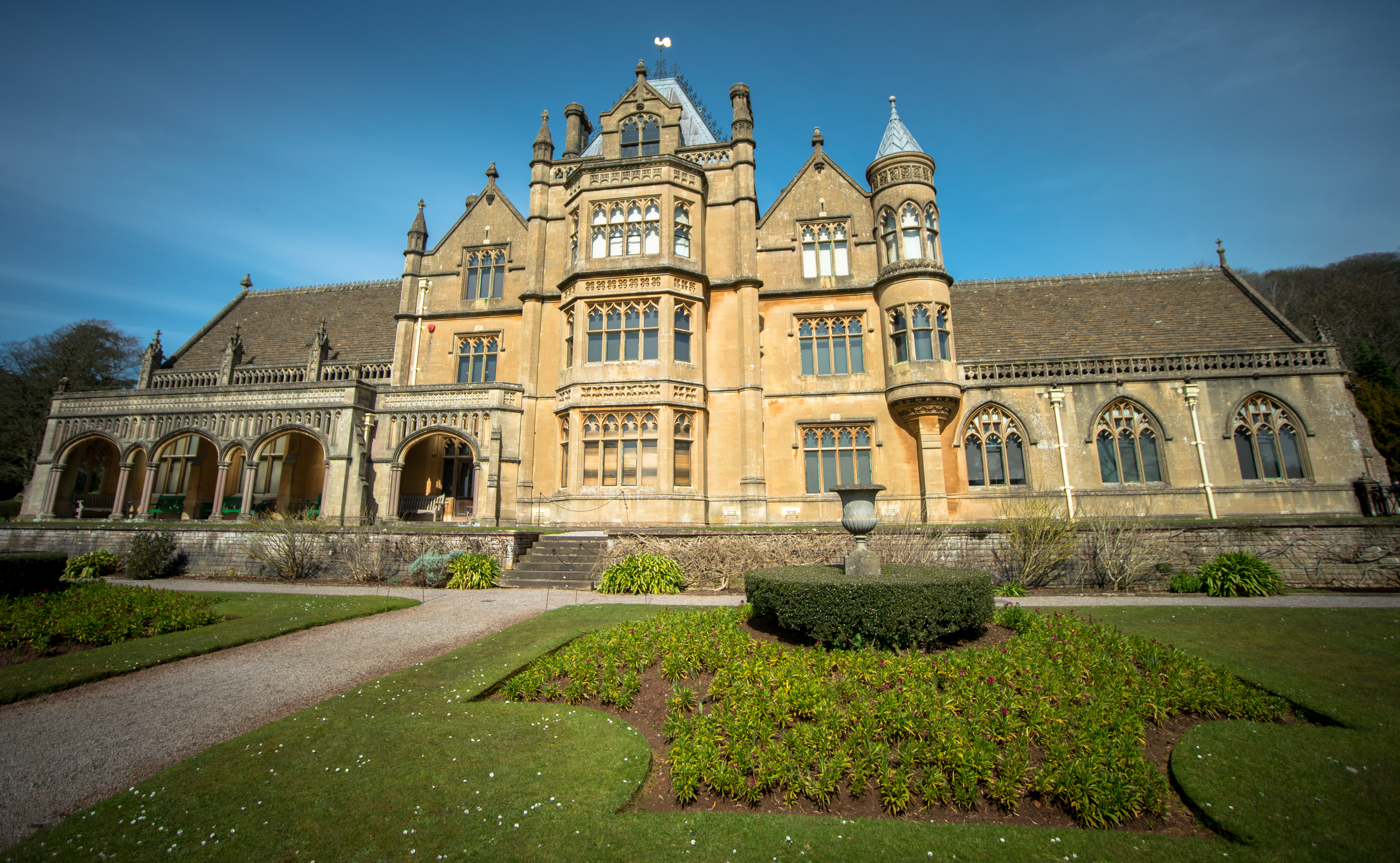 The front elevation of Tyntesfield Stately Home near Bristol, UK